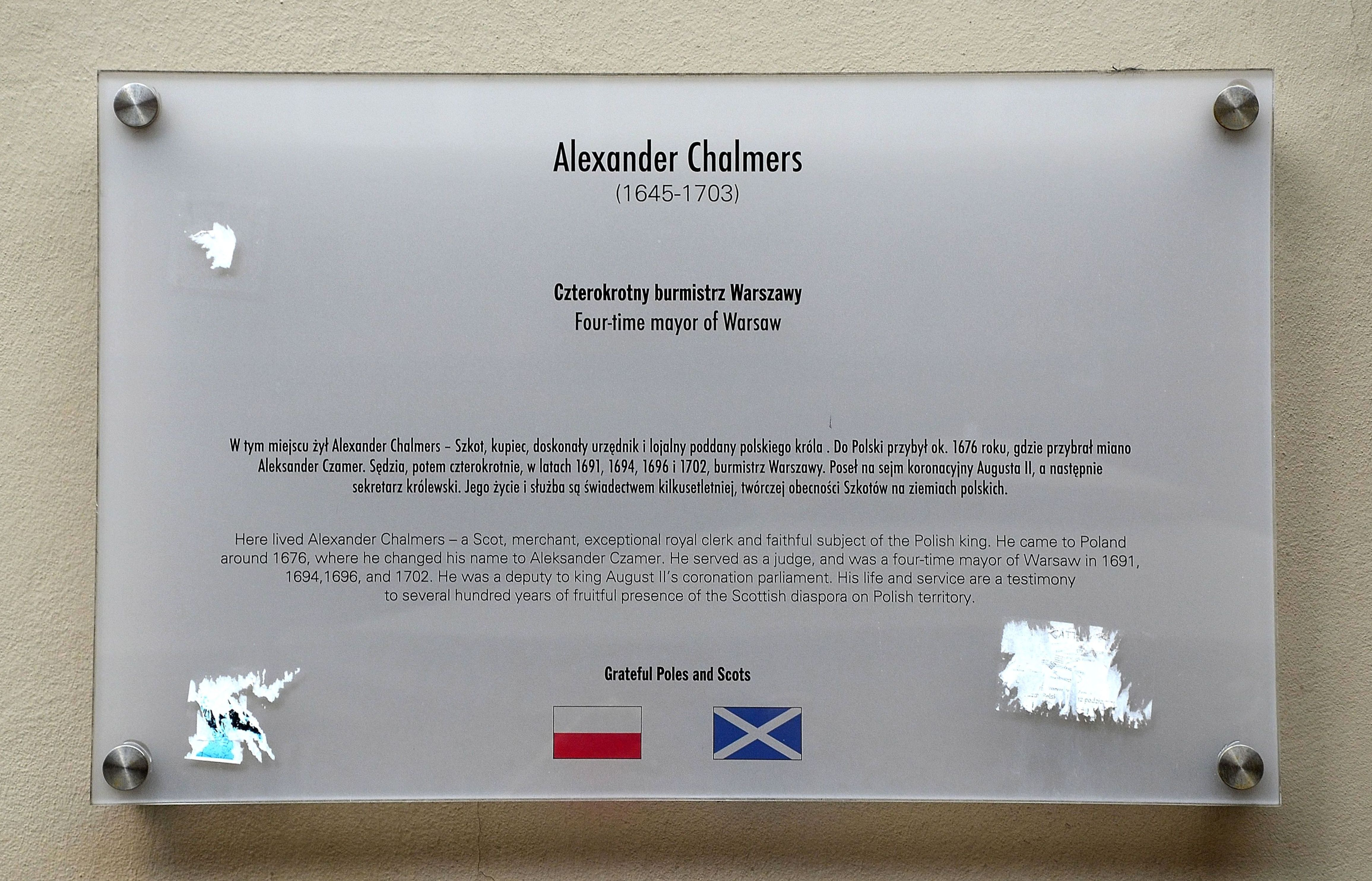 Commemorative plaque to Alexander Chalmers at 10 Wąski Dunaj Street (on Szeroki Dunaj Street side of the building) in Warsaw